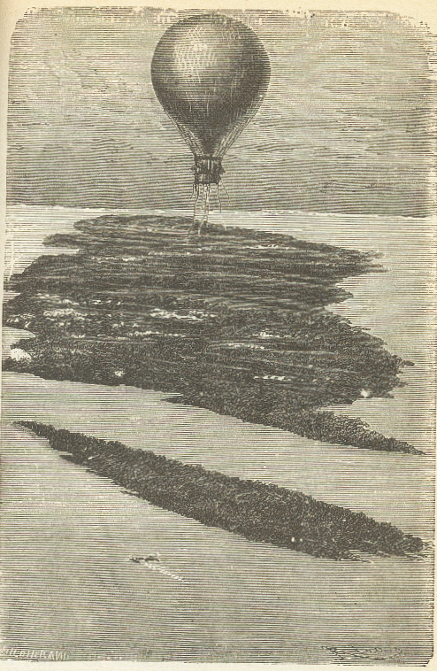 April 1862 : The Victoria over the Zanzibar Channel after leaving Koumbeni Island (near Zanzibar City)